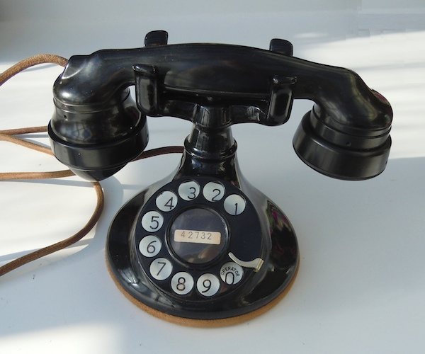 This is a Western Electric B1 desk set (1930) with a E1-type handset, as used in the 102-type desk telephone in conjunction with a subscriber set wall box.